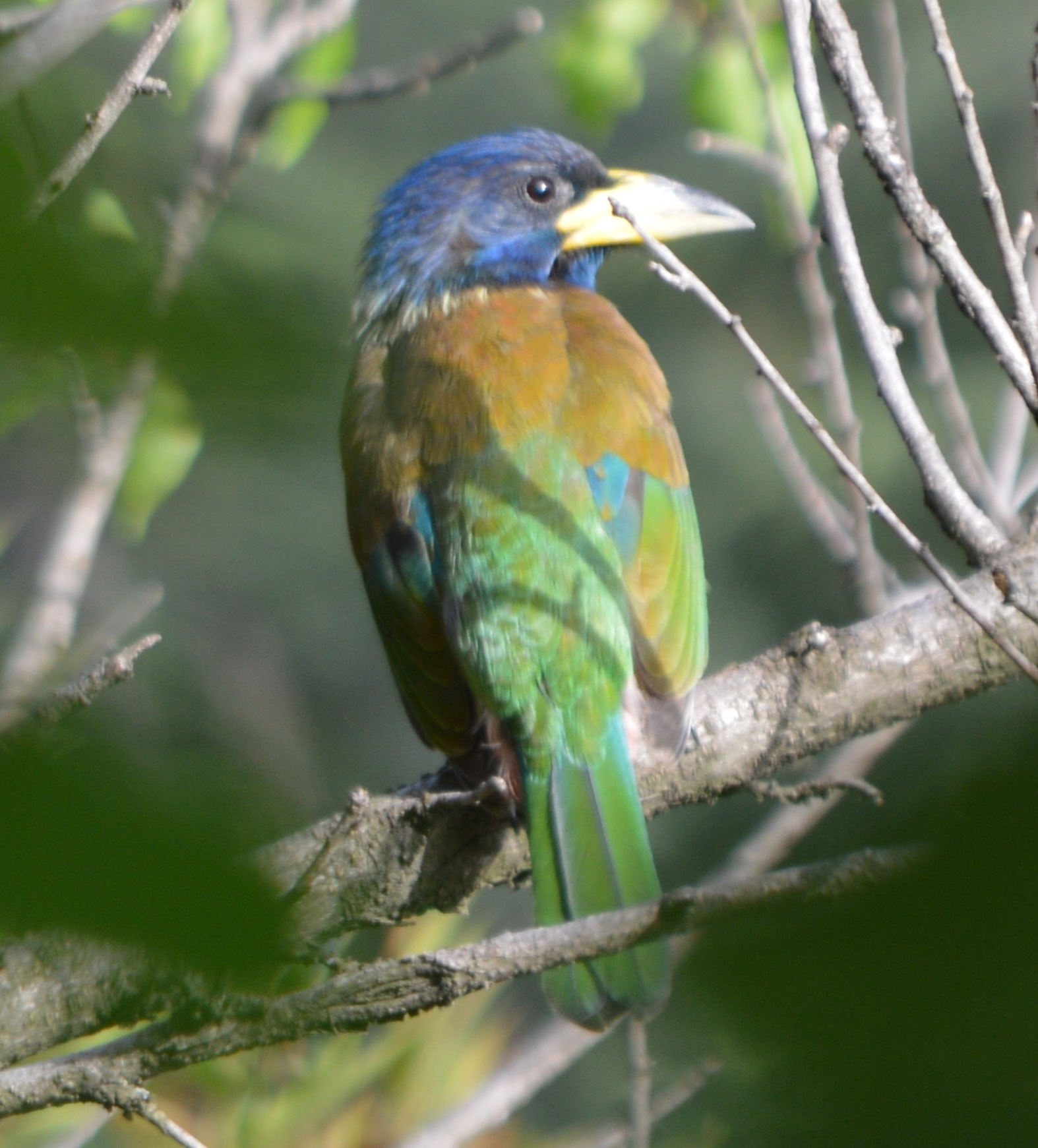 The Great Himalayan Barbet